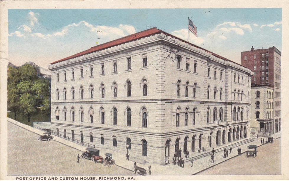 U. S. Post Office and Courthouse 10th and Main streets, Richmond, Virginia 1912